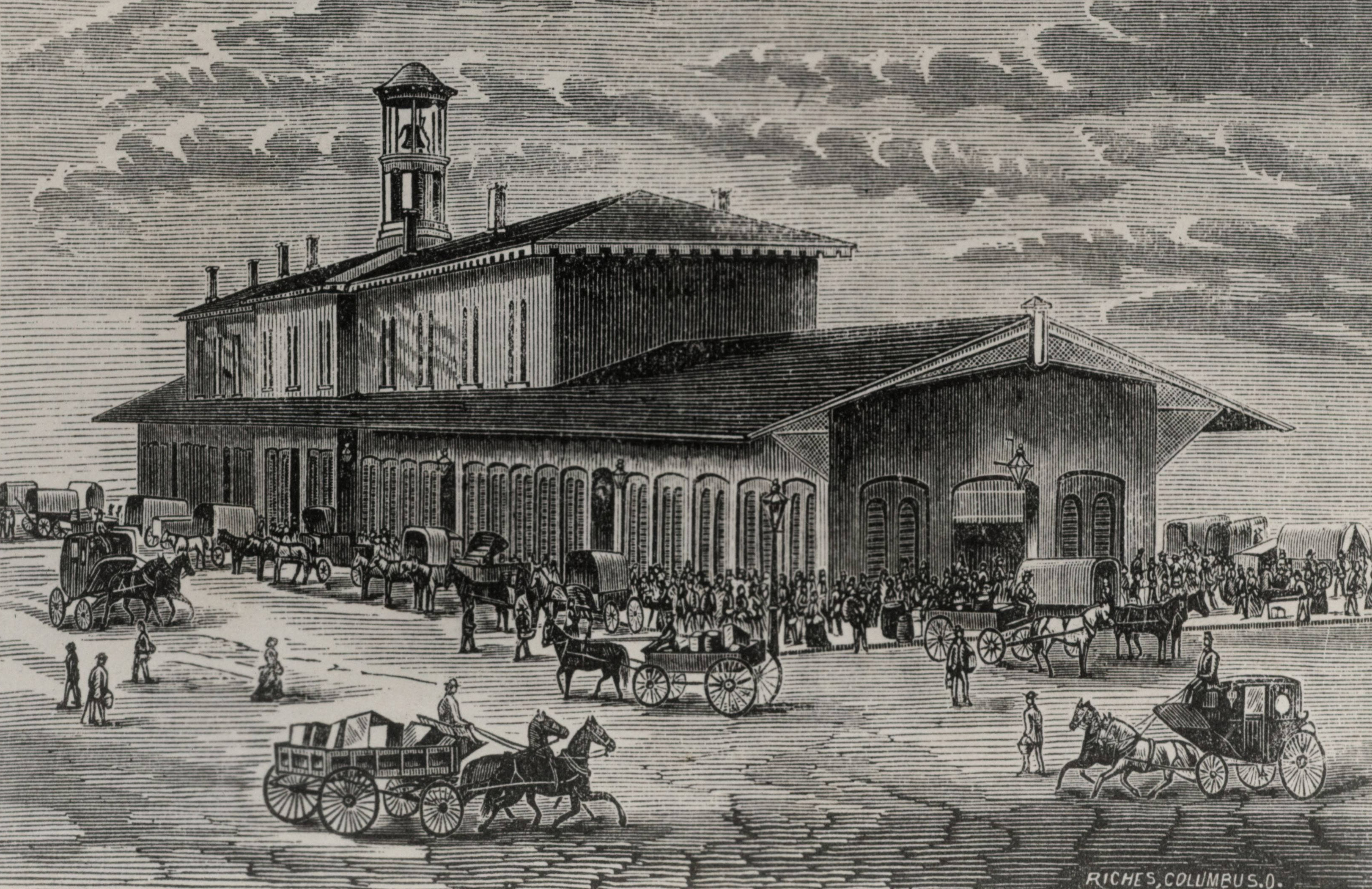 Engraving of Central Market, Columbus, Ohio, 1873.